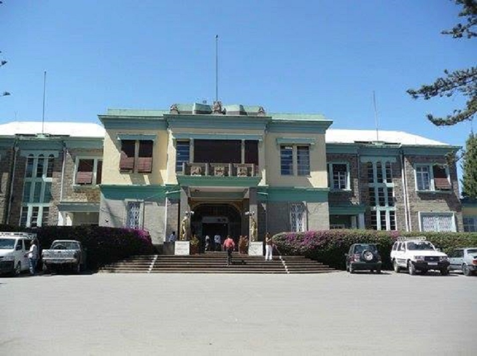 Guennete Palace Addis Abeba